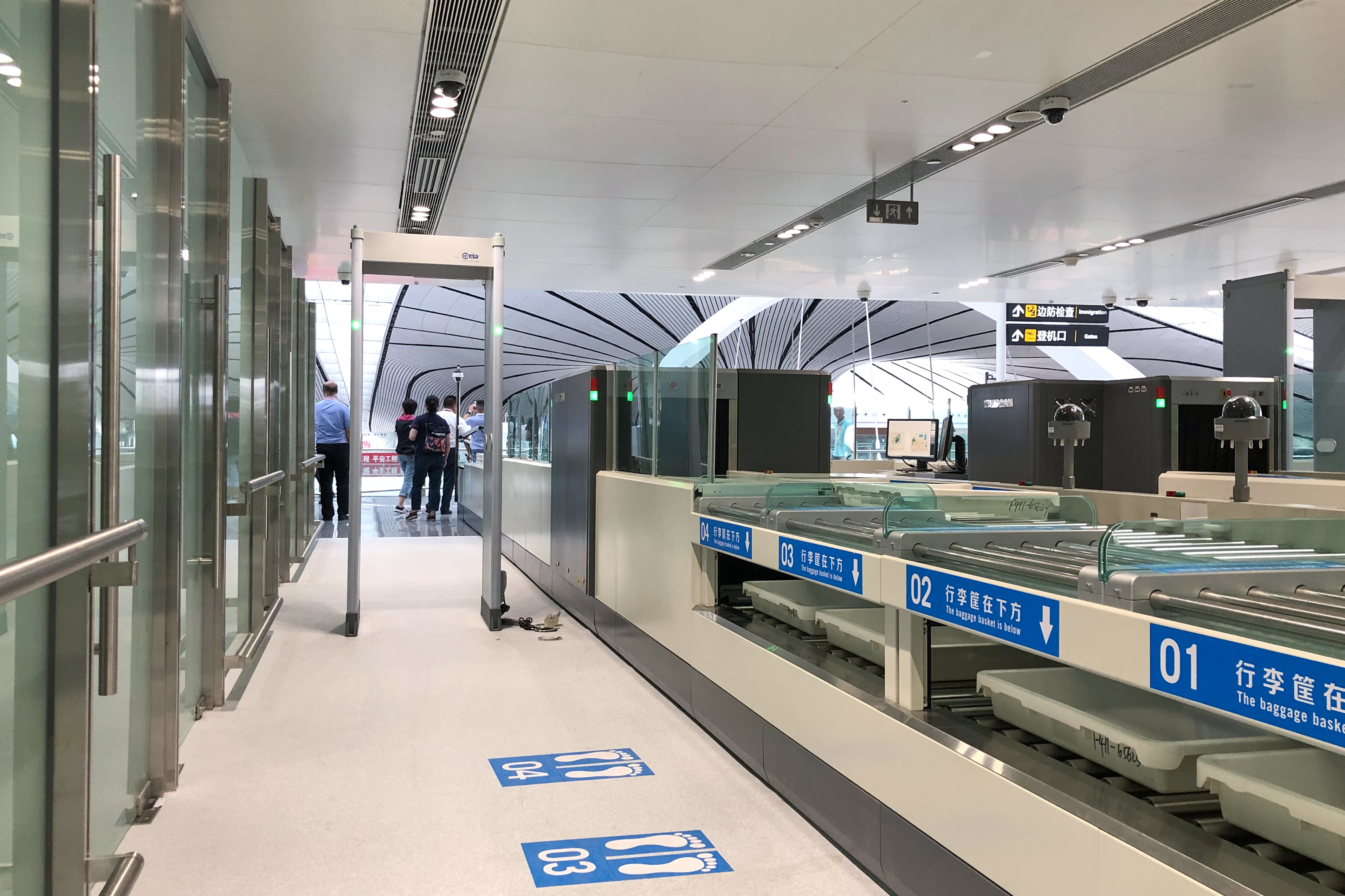 Then where's the immigration inspection?